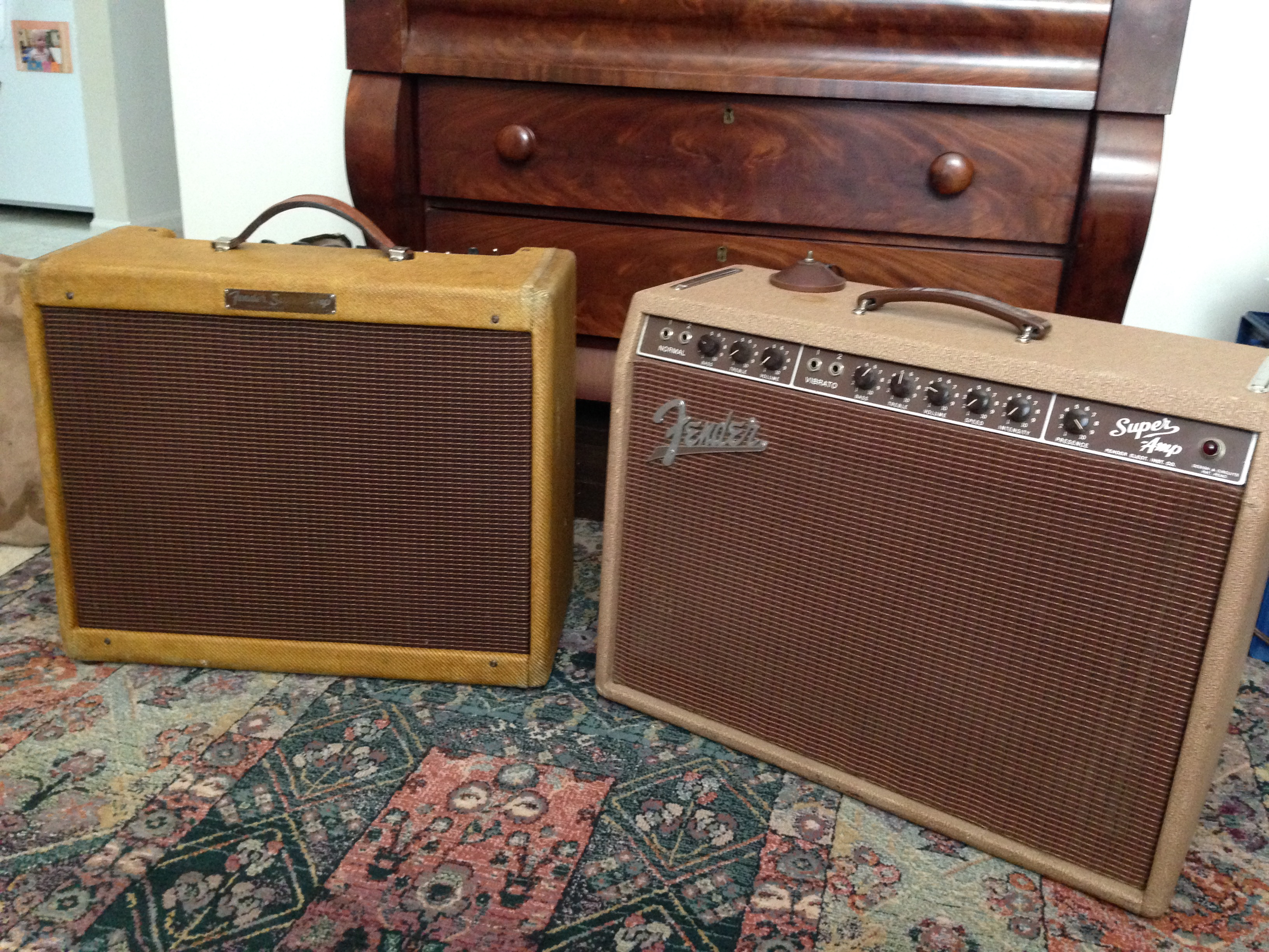 1958 Super Amp (left) and 1960 Super Amp (right), each with 2-10" Jensen Alnico speakers and approximately 40 watts output power.